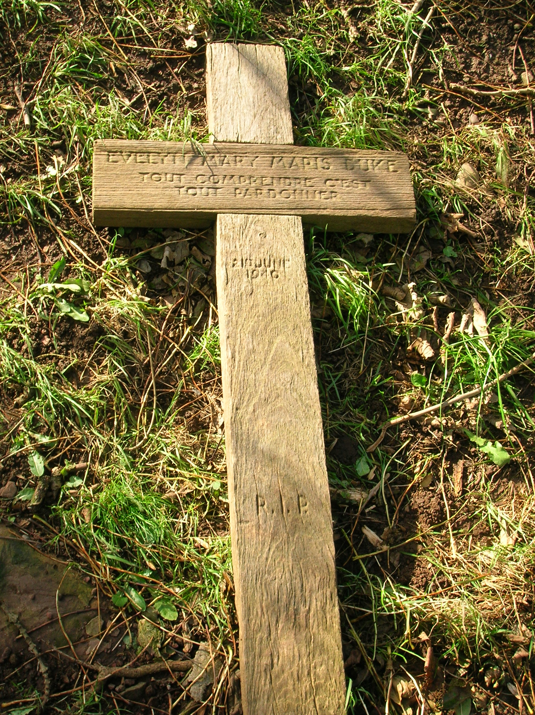 Evelyn Mary Mapis Duke - wooden cross at Barnweill Church. Dated June 21st 1946. 'To understand is to forgive' inscribed in french.